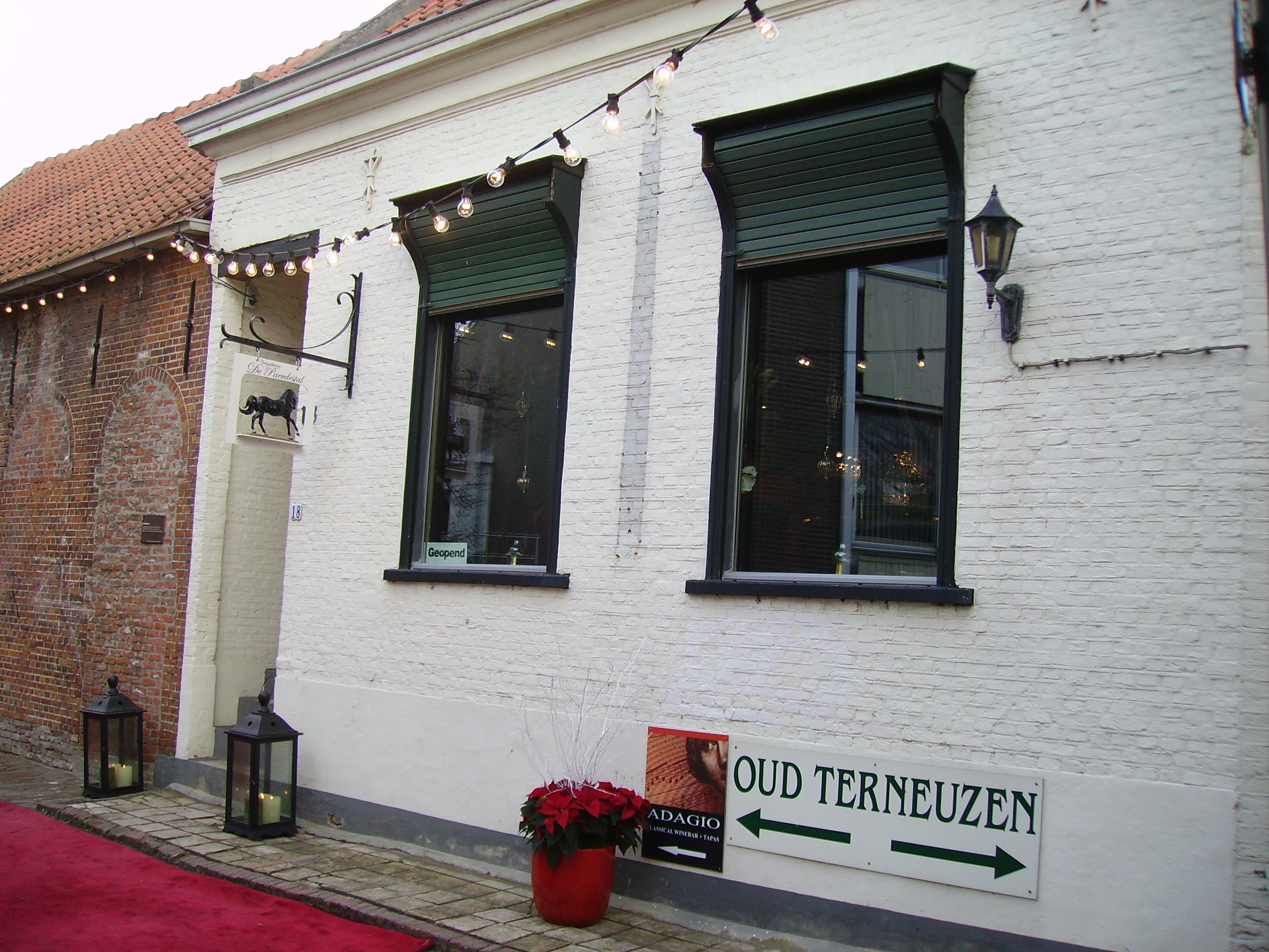 Tuinstraat in Old Terneuzen The Netherlands